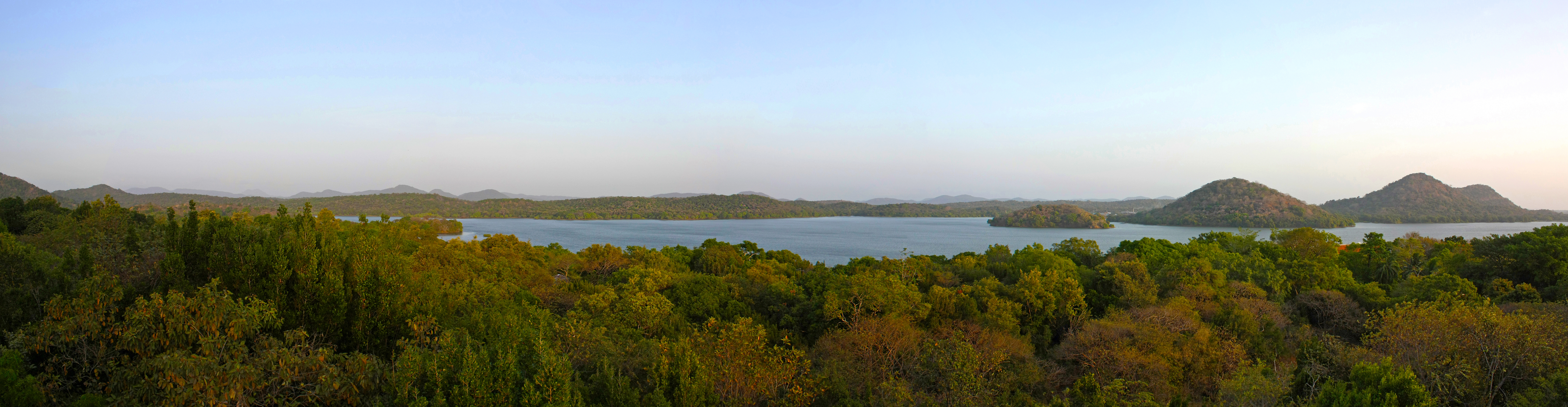 Giritale tank (panorama view). Minneriya-Girithale is nature reserves area in Sri Lanka.